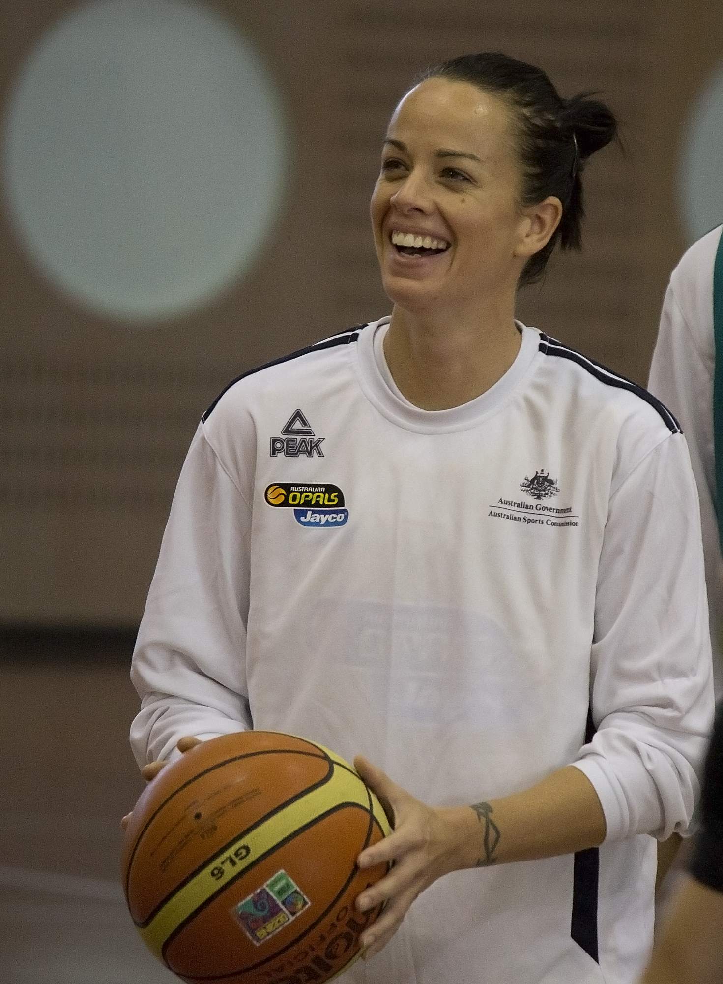 Kristen Veal at day three of the Opals camp.